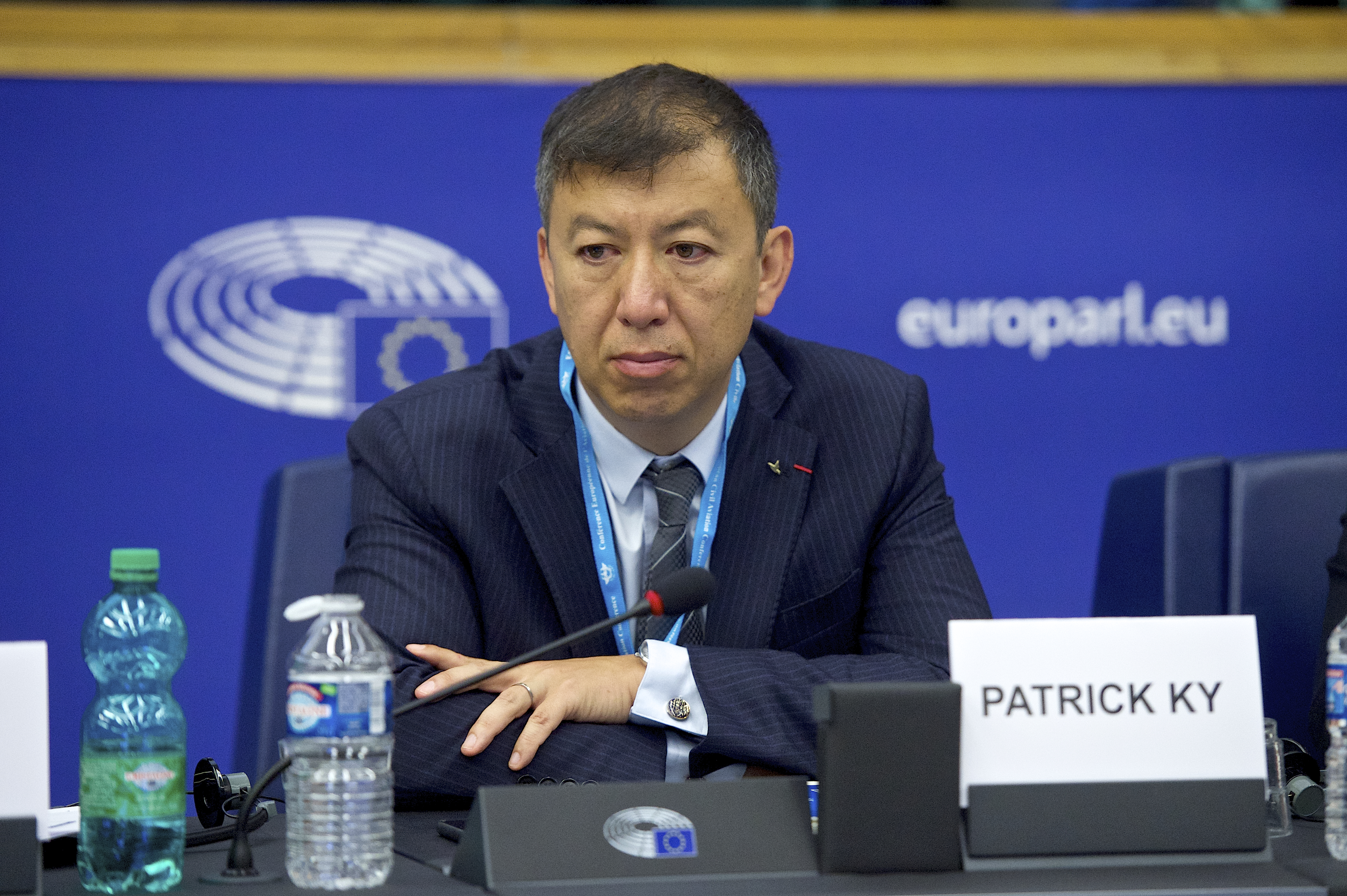 ECAC-CEAC 36th Plenary (triennial) Session of the European Civil Conférence, Strasbourg 10/11 July 2018.